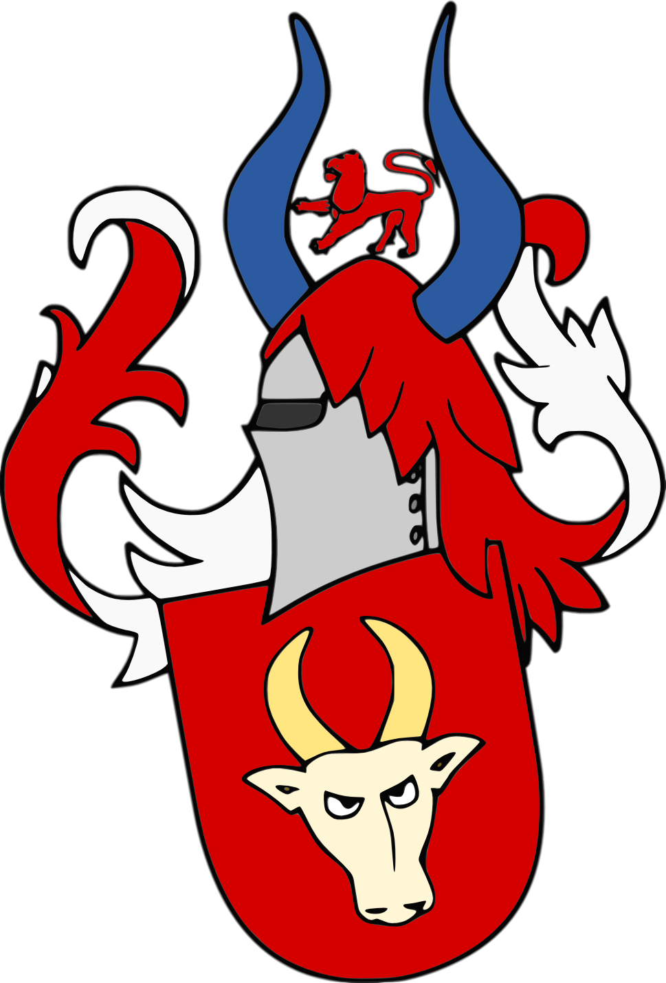 Reconstruction of the Coat of arms of despot Djordje Brankovic